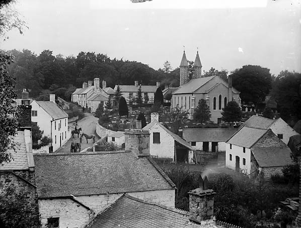 1 negative : glass, dry plate, b&w ; 16.5 x 21.5 cm.